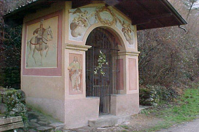 Lazzaretto di Niardo